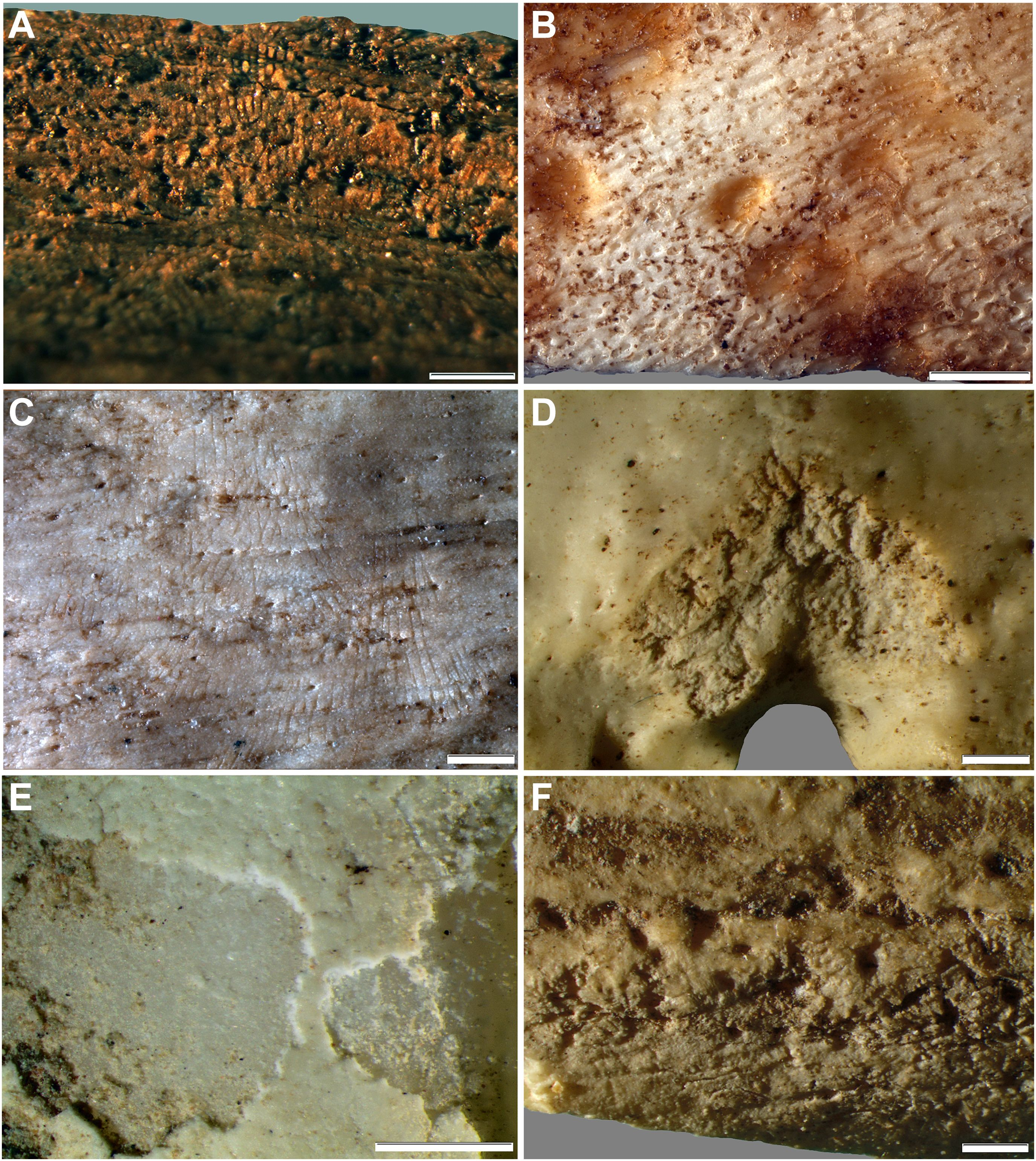 Comparative examples of surface modifications on bone made by modern snails and beetles and their larvae after four months in controlled experiments. Gastropods and beetles were found to produce similar modifications to those observed on the Rising Star hominin remains, and remove the surfaces of fresh, dry and fossil bones to an equal degree (see Figure 11). (A) Dry bovid rib showing surface removal associated with evenly spaced, multiple parallel striations made by the radula of an Achatina (land snail). (B) Fresh sheep bone that was originally covered with tissue showing how Helix aspersa (garden snails) have removed the outer cortical lamellae to produce an etched appearance and create circular shallow pits with smooth and striated bases. (C) Dry bovid rib showing shallow, evenly spaced, multiple parallel striations produced by Achatina. (D) Dry bird femur showing large individual striations that are variably arrow-shaped and often overlap, made by Omorgus squalidus (hide beetles). (E) A weathered bovid tooth showing surface removal with a scalloped edge produced by Dermestes maculatus larvae, and with a straight edge associated with scrape marks. (F) Scrape marks created by a D. maculatus adult beetle mandible on a dry medium-sized bovid long bone flake. The scale bar in all samples equals 1 mm.